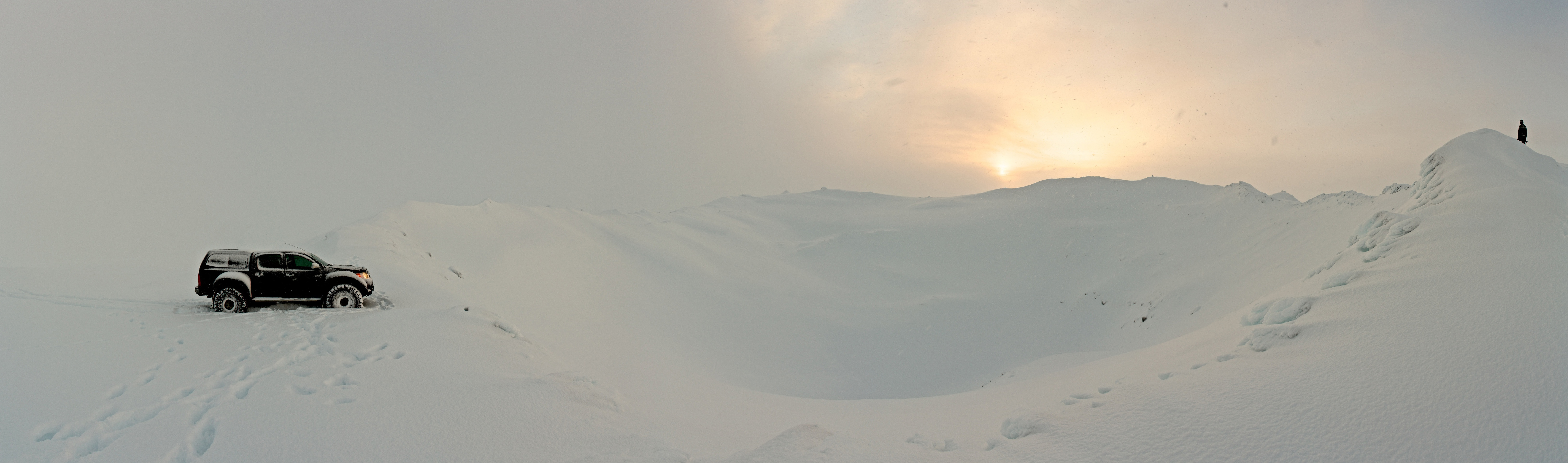 A panoramic view of the crater on top of Skjaldbreidur, a dormant volcano in the southwest of Iceland. The crater is 300 meters in diameter.